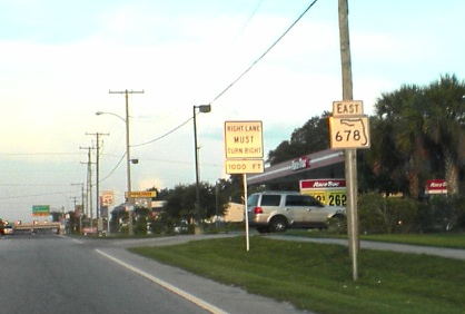 This image depicts a sign indicating SR 678 EAST. You will see this headed eastbound on Bearss Ave. just after you cross Florida Ave.